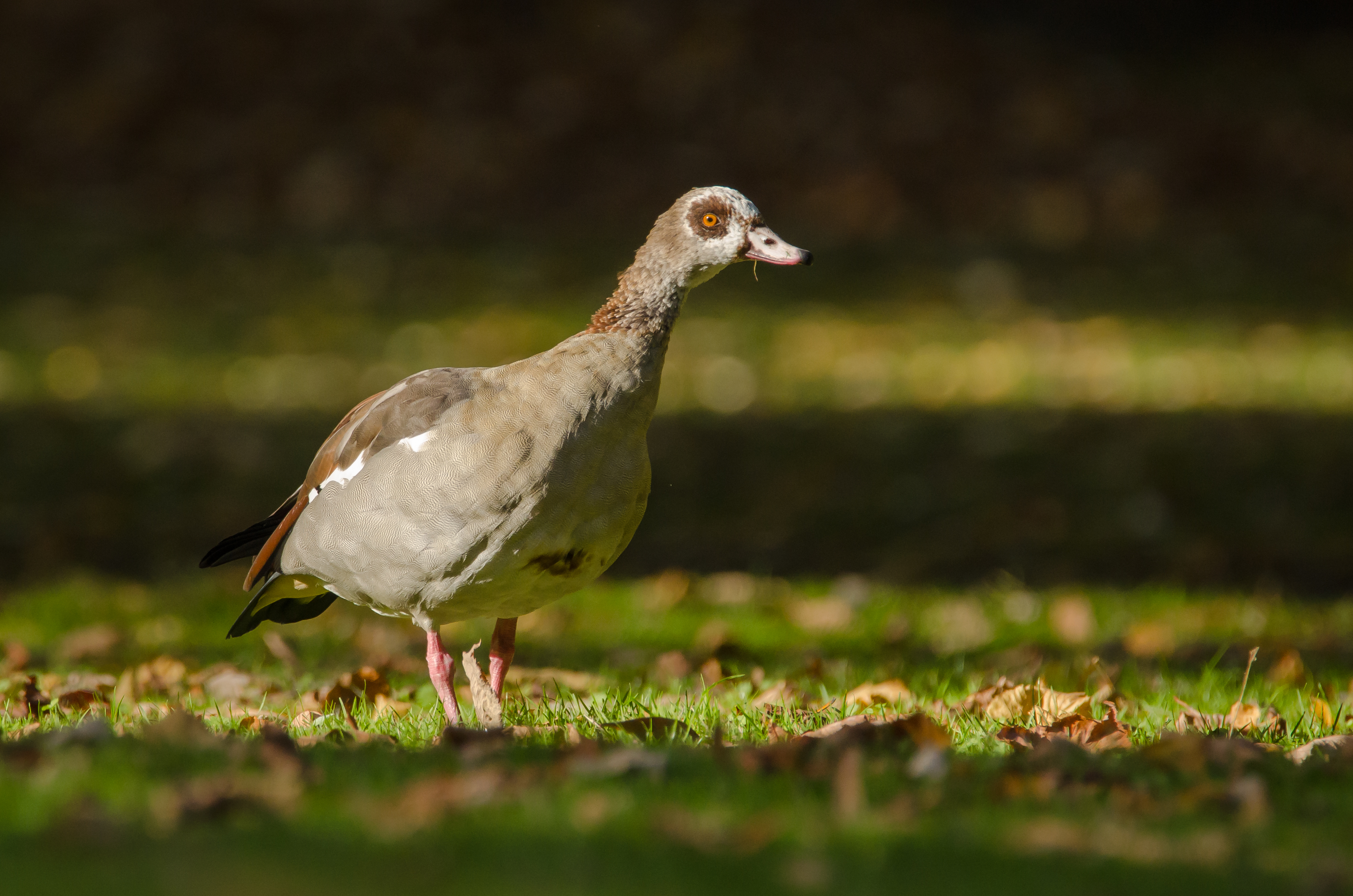 Egyptian Geese in Düsseldorf, Germany